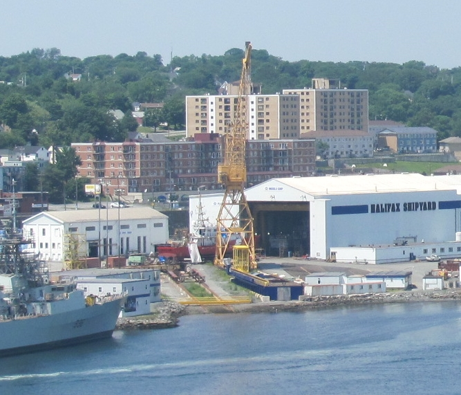 A Hero Class patrol vessel is readied for launch at the head of the launch slip at the Halifax Shipyard, Halifax Regional Municipality, Nova Scotia, Canada